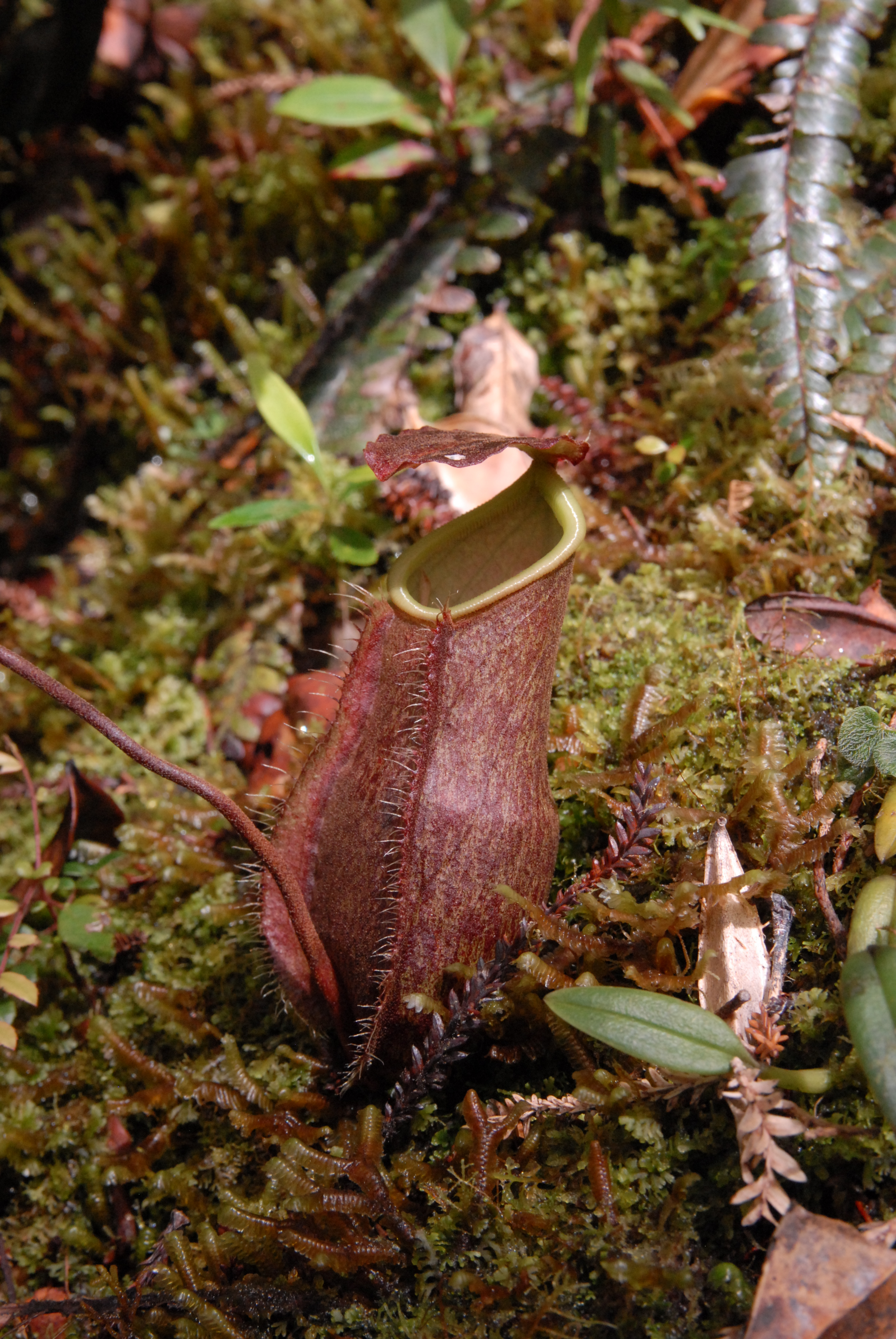 Nepenthes papuana lower pitcher from the Doorman Massif, New Guinea